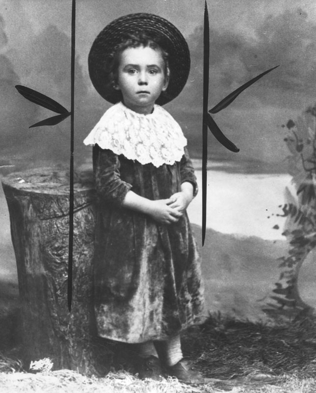 Jerry Giesler as a child "Don't be misled by the skirt, the sleepy look, and the curls of this two-year-old. A local law graduate, he is nationally known for his able ability as a defense attorney. No matter whom he is defending, the public and fellow attorneys attend just to see him in action. He is Jerry Giesler."